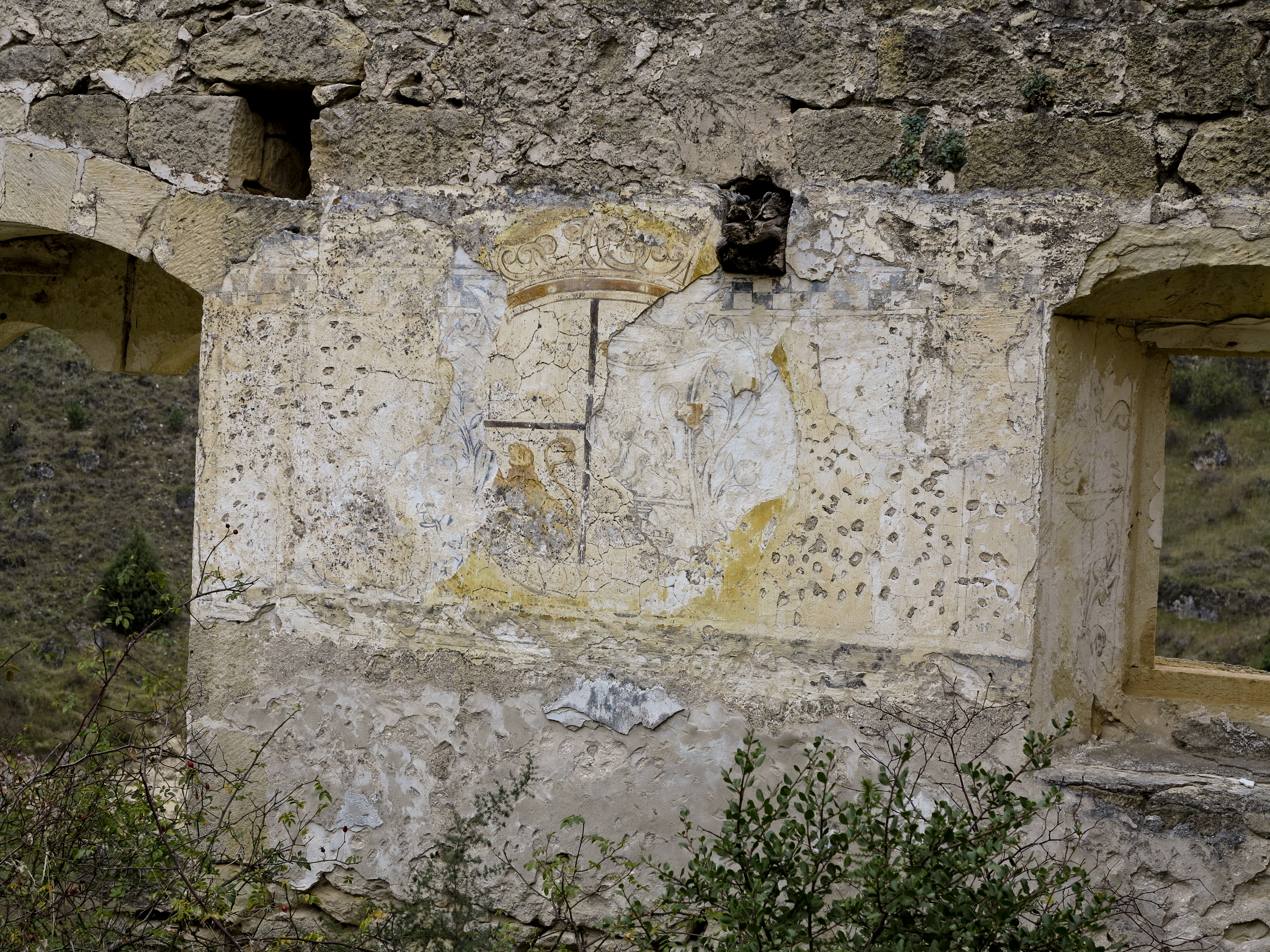 Monasterio de Nuestra Señora de la Hoz/Convento de la Hoz. Hoces de Duraton, Sepúlveda, Provincia de Segovia, Castilla y León, Spain.